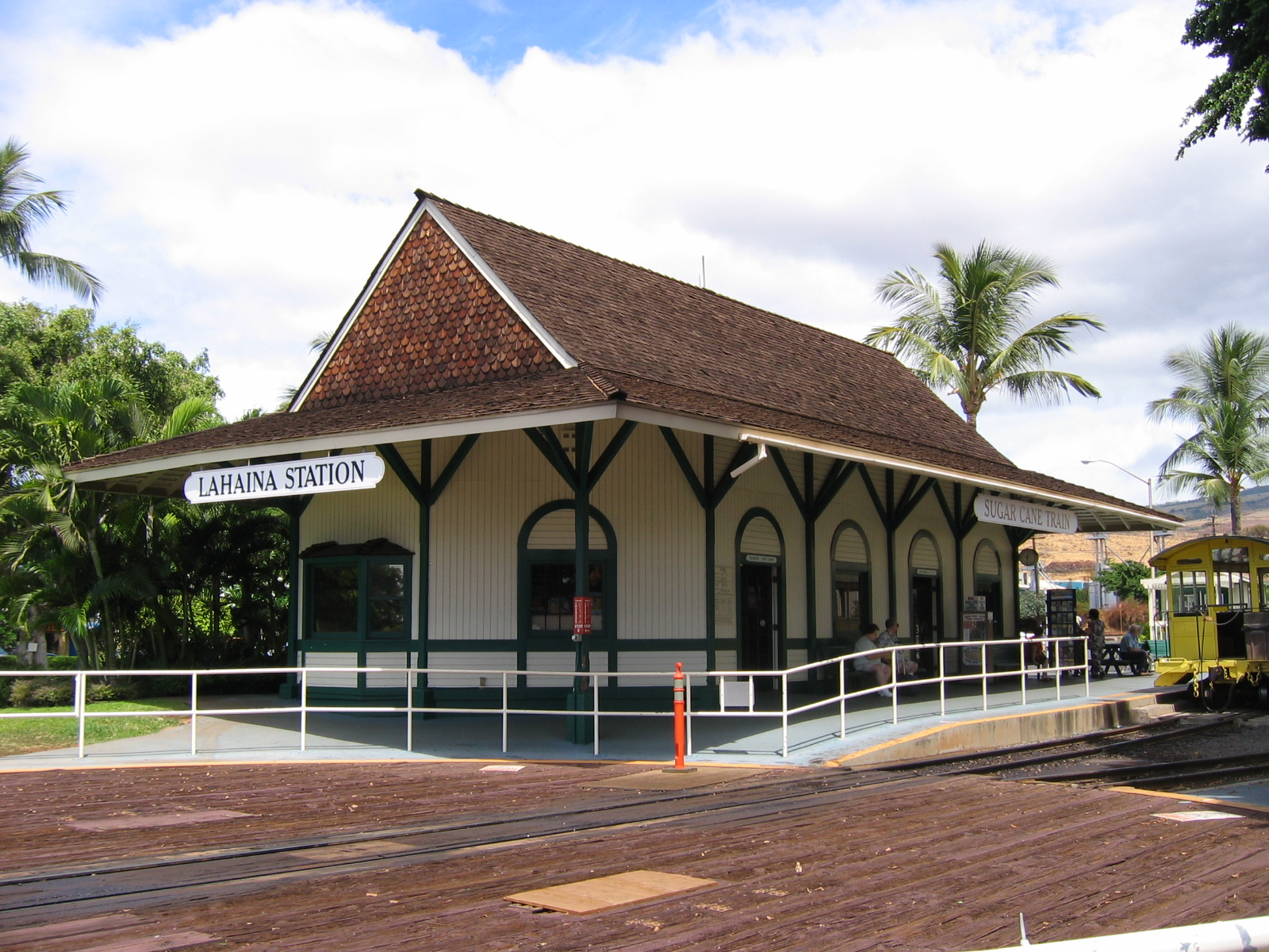 The Sugar Cane Train, tourist train Lahaina, Kaanapali and Pacific Railroad Lahaina Station